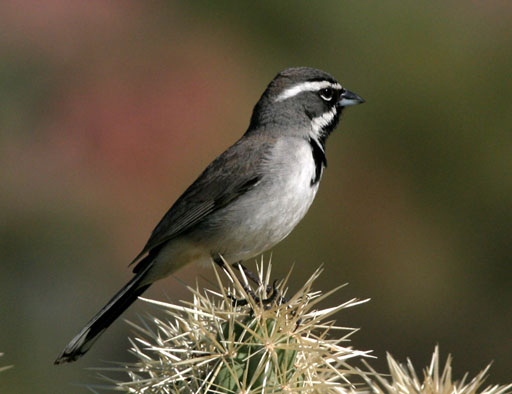 Black-throated Sparrow, Amphispiza bilineata, male, perched and singing intermittently. Location: Lost Dutchman State Park, Apache Junction, Arizona, United States.